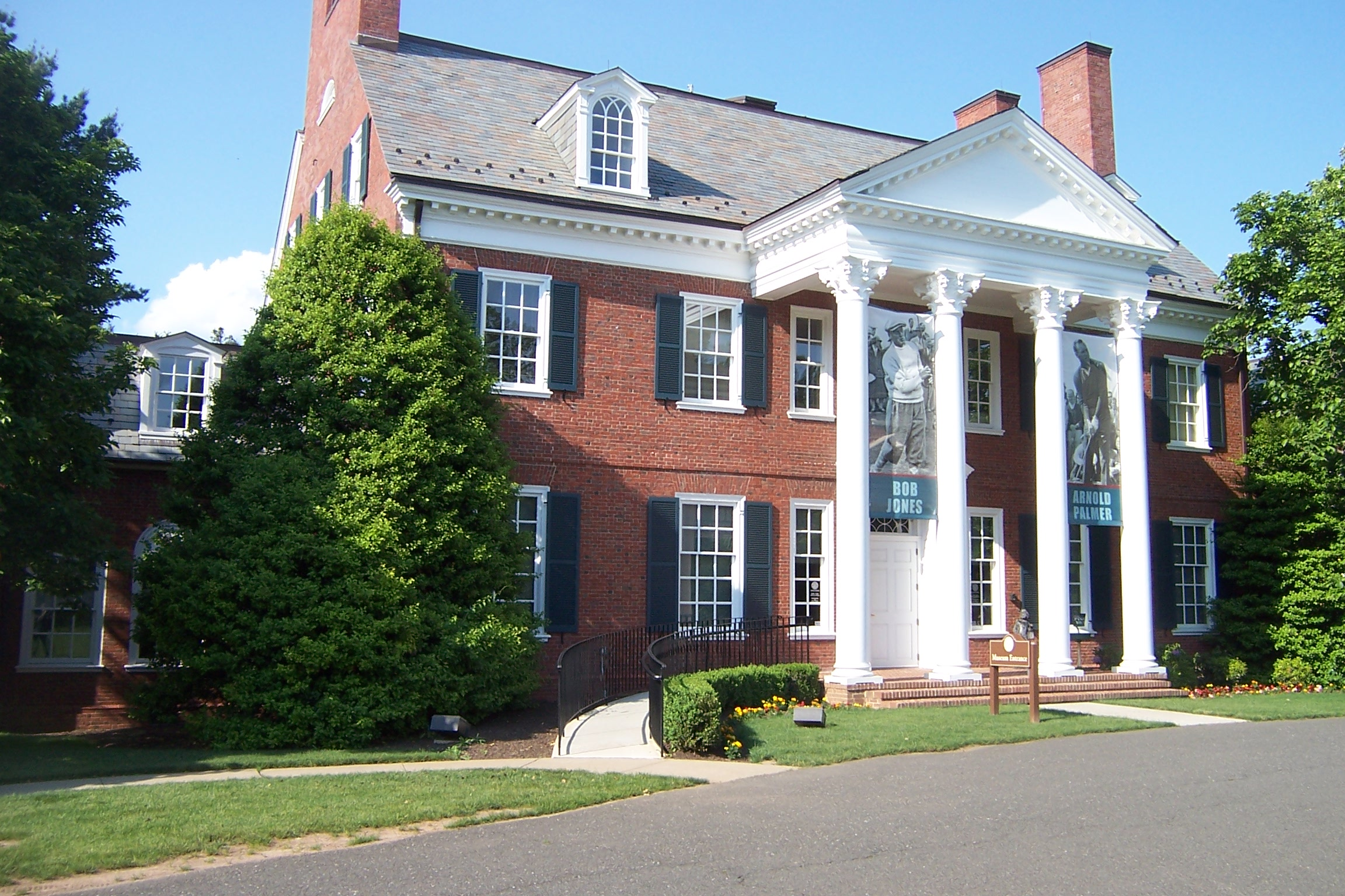 The USGA Museum building in Far Hills, New Jersey.